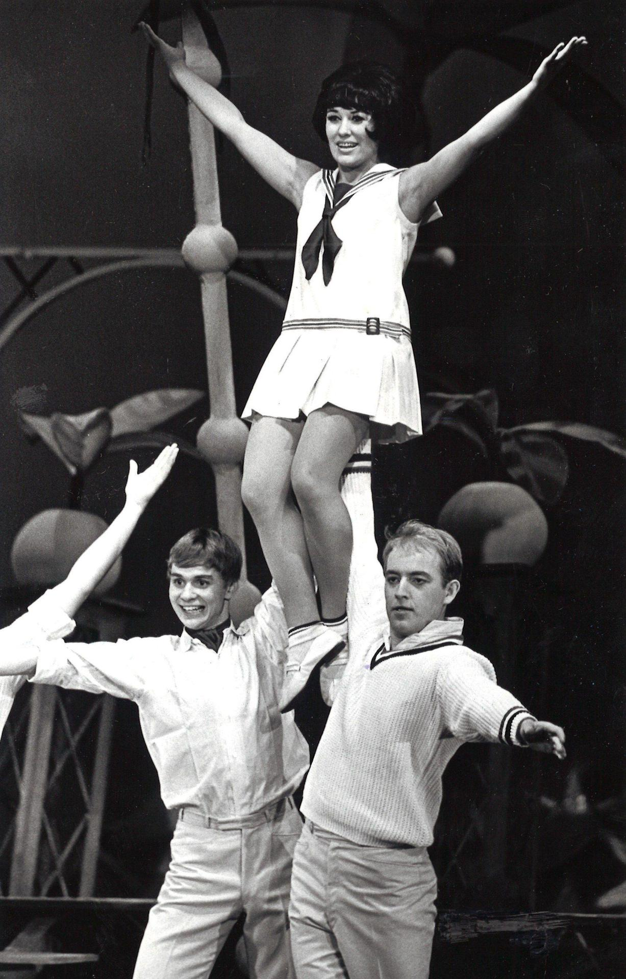 Photograph of the Finnish production of Sandy Wilson’s The Boy Friend musical at Erottajan Teatteri, Helsinki, showing actors Asko Sarkola, Laila Kinnunen and Göran Schauman.